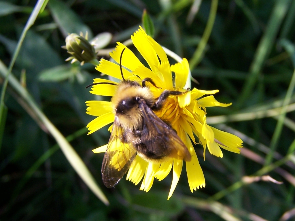 Bombus terrestris